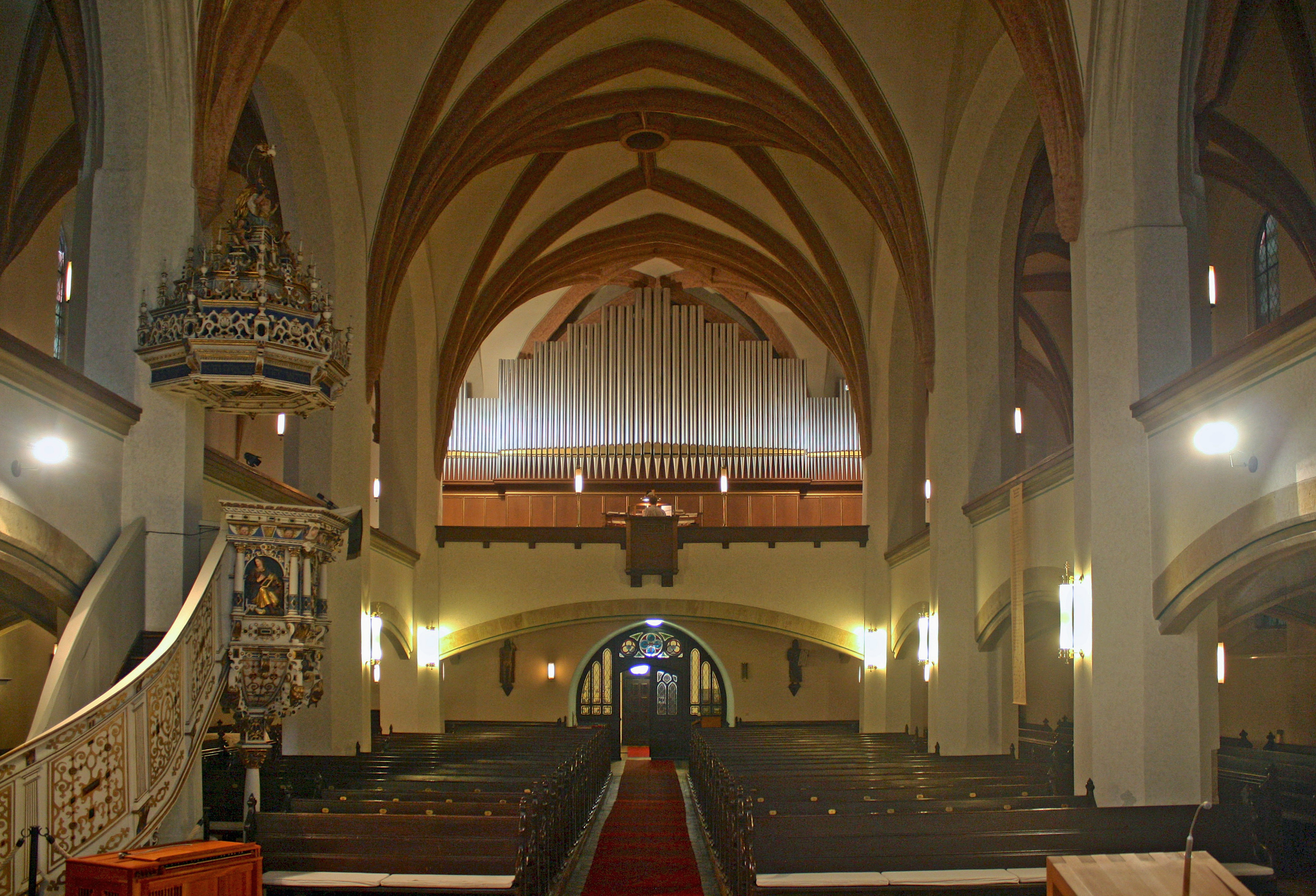 The 1929 Eule organ of the St.-Nicolai-Kirche, Döbeln (Germany)